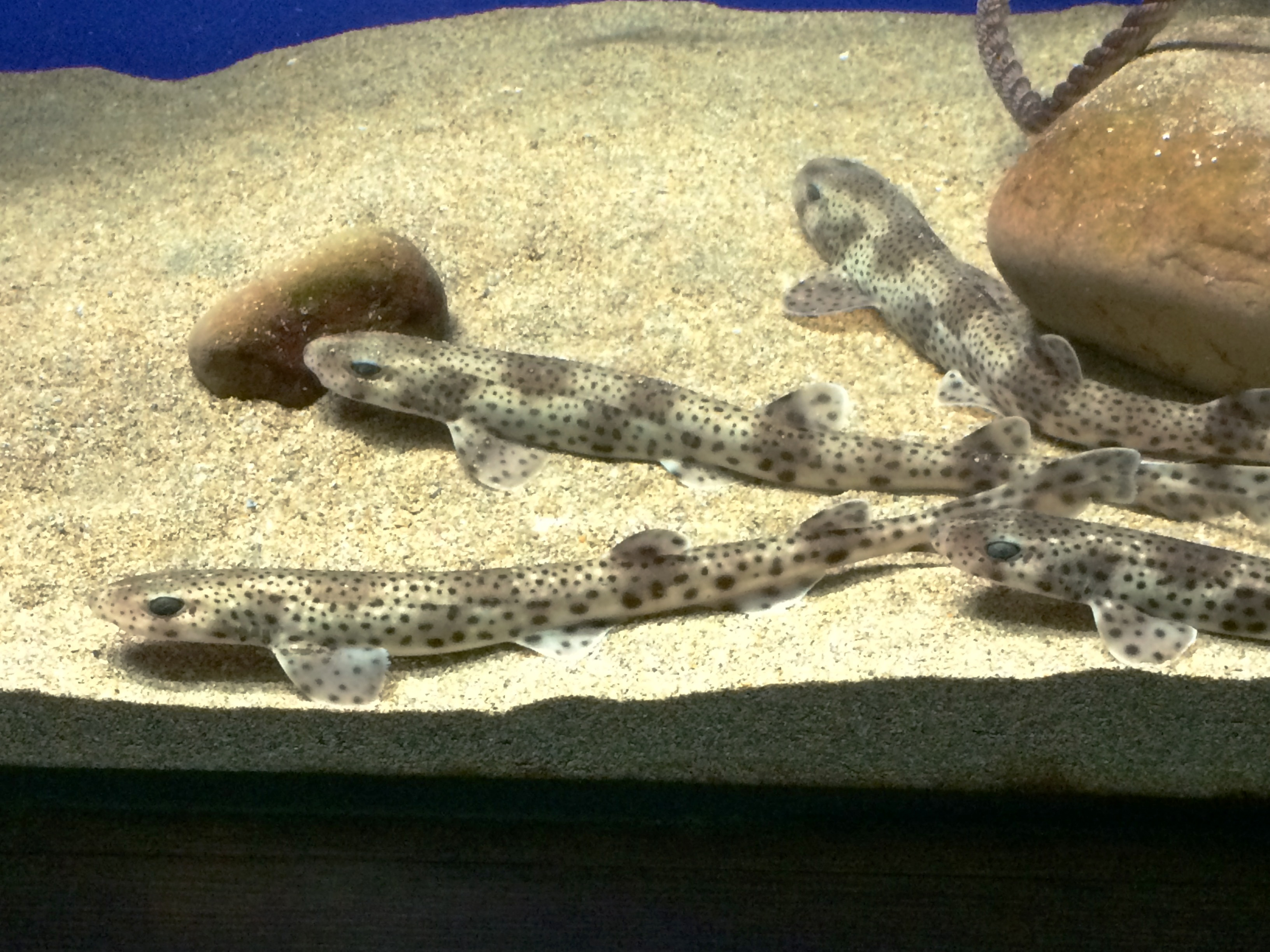 Juvenile nursehounds (Scyliorhinus stellaris). Photograph taken in the Aquarium of Seville (Acuario de Sevilla).